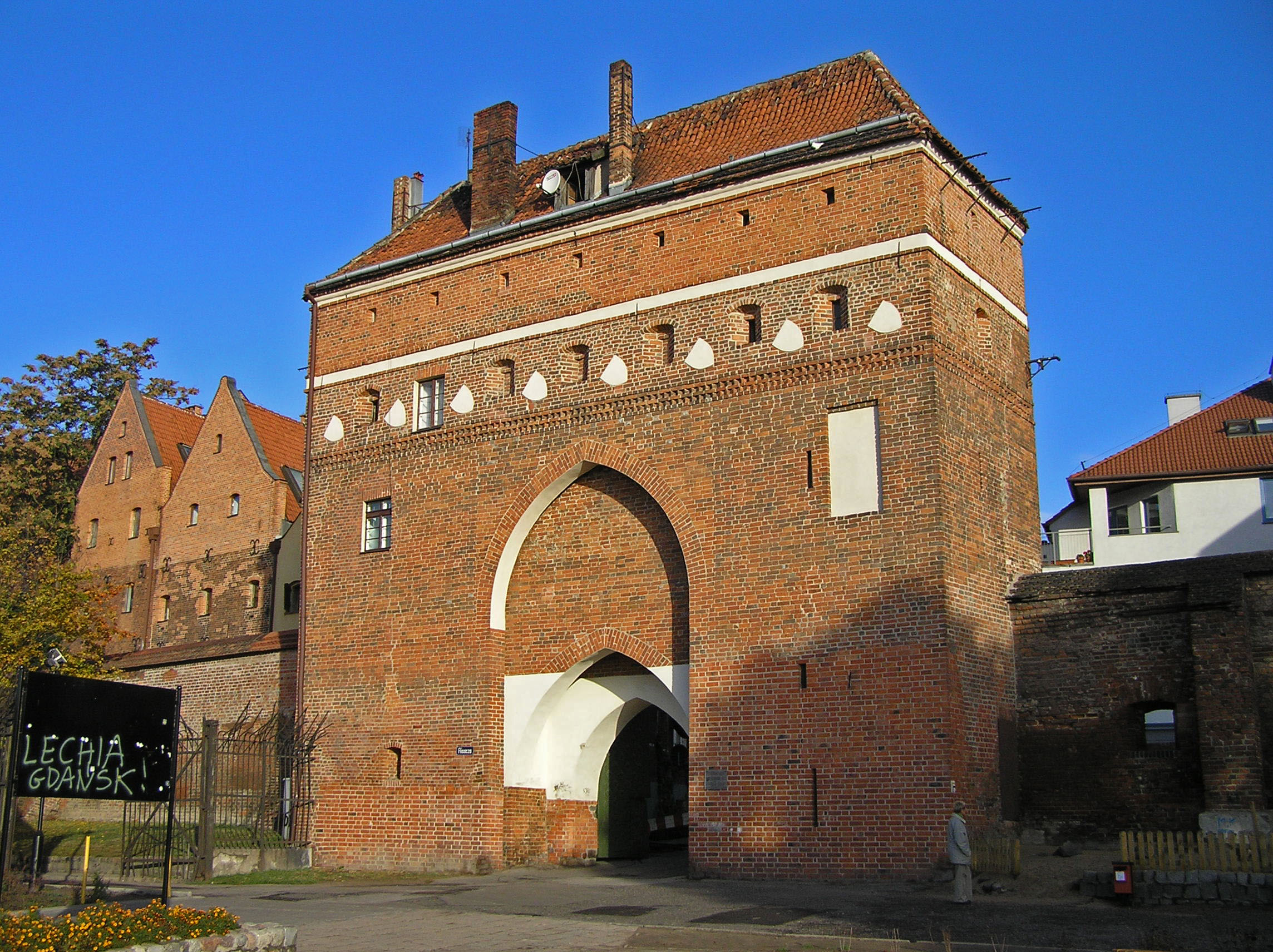 Klasztorna Gate, Toruń